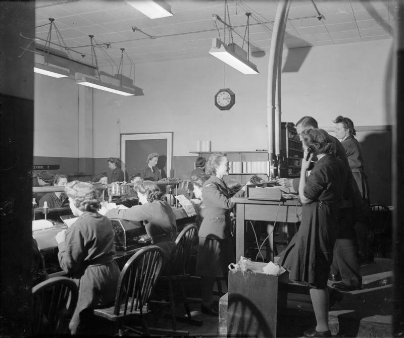 Royal Air Force Coastal Command, 1939-1945. WAAF teleprinter operators at work in the signals centre at Headquarters, No. 18 Group, at Pitreavie Castle, Fife. Note the Lamson tubes close by the supervisor's desk at right.